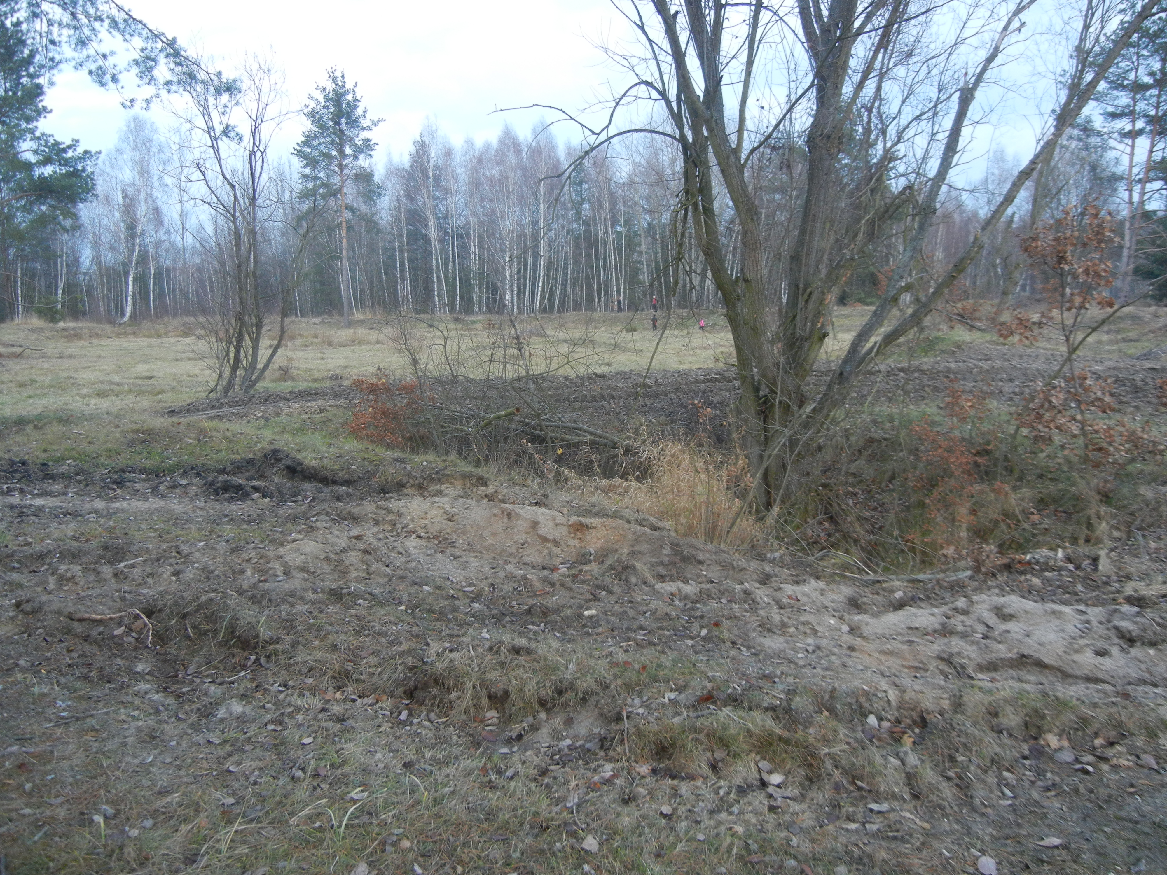 Natural monument Na Plachtě 3 in Hradec Králové District, Czech Republic